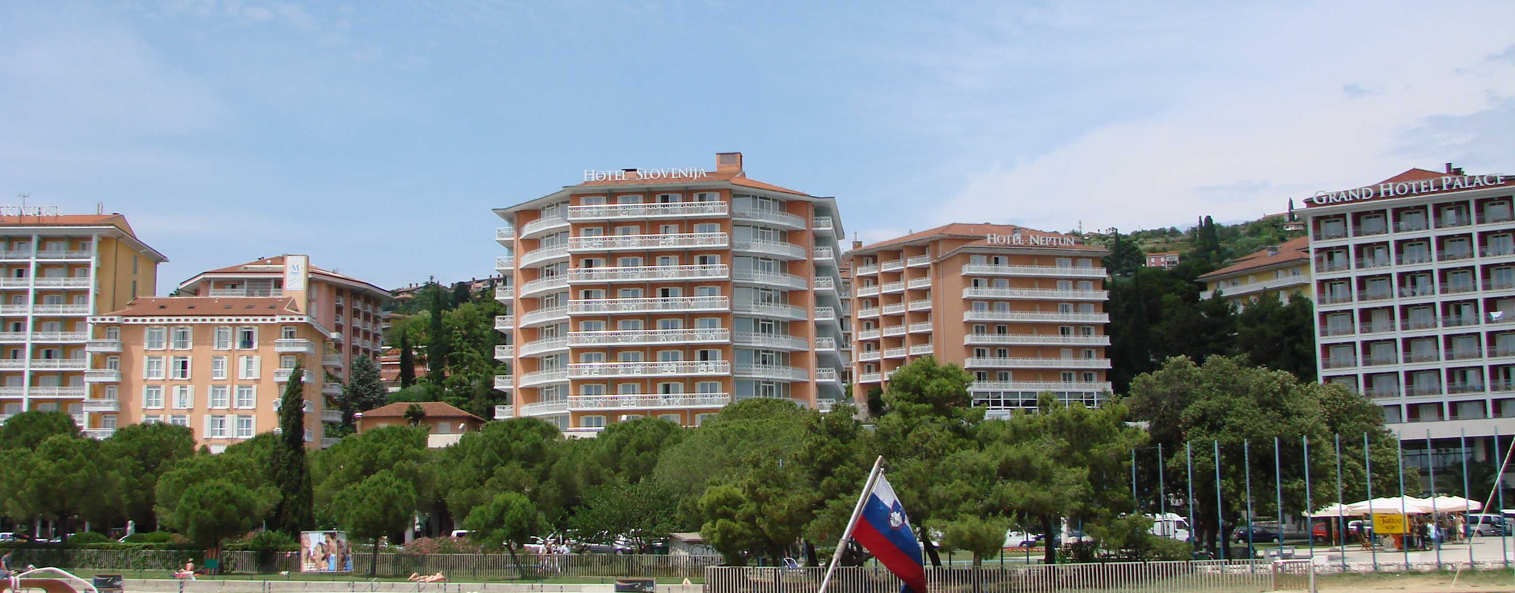 Hotels in Portorož, Slovenia.